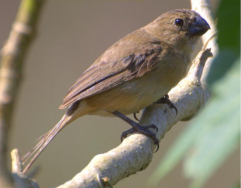 Female White-bellied Seedeater (Sporophila leucoptera) at Mogi das Cruzes, Sao Paulo, Brazil.